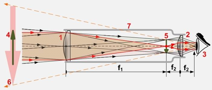 Refracting telescope.